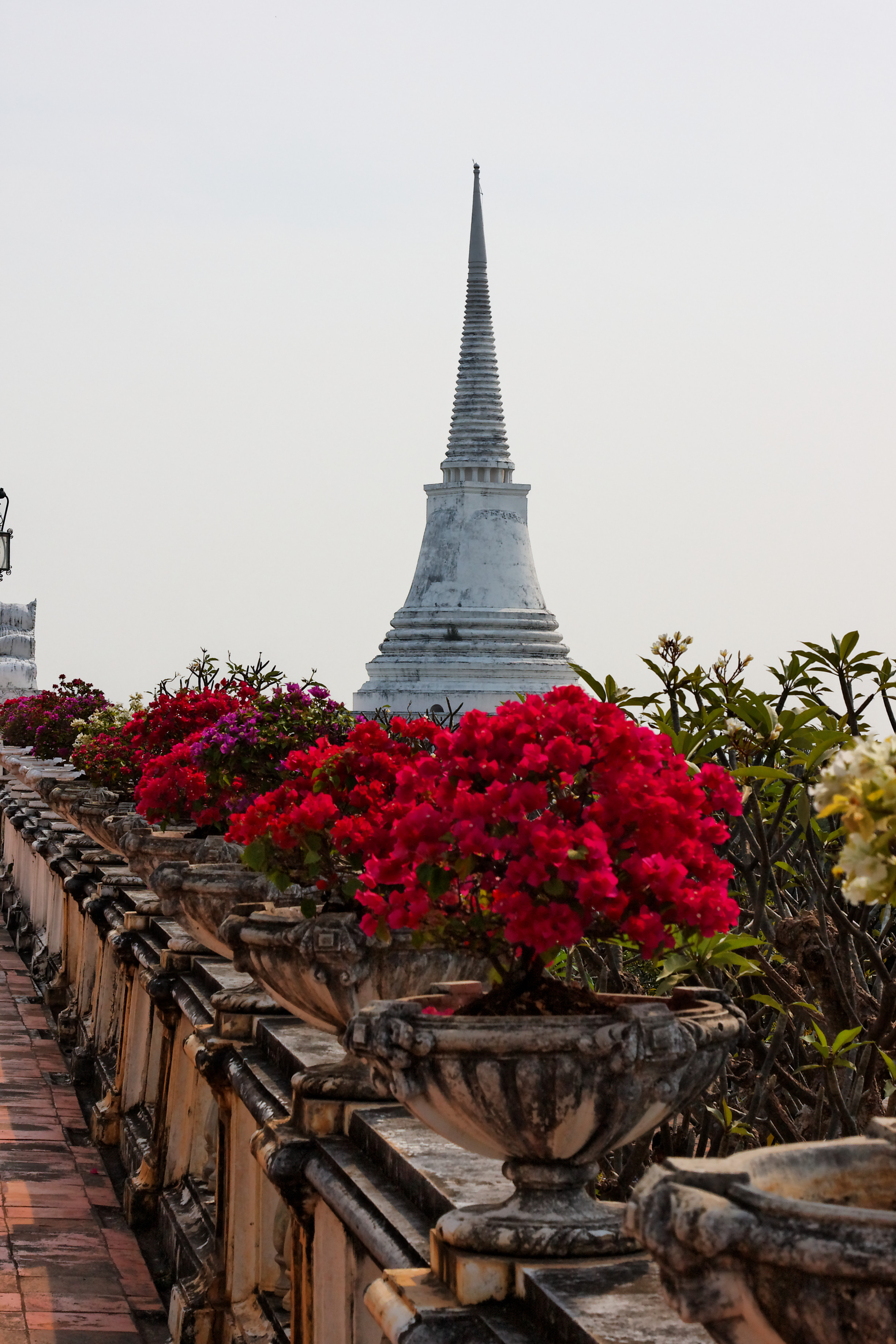 Phra Nakhon Khiri, Petchaburi, Thailand